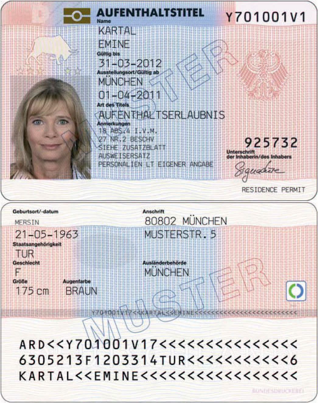 Specimen of a residence permit (electronic version) in Germany